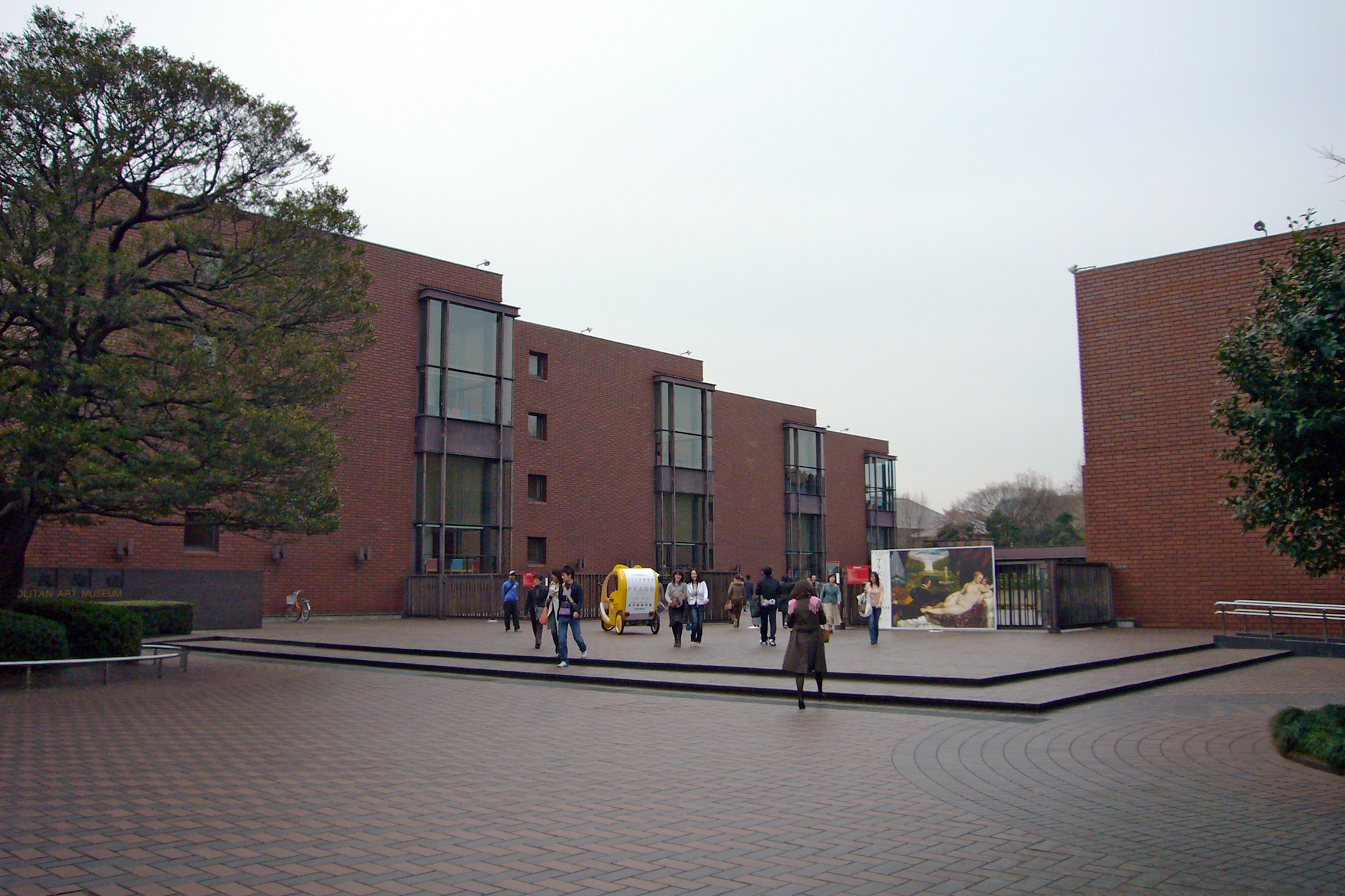 Tokyo Metropolitan Art Museum in Taito-ku, Tokyo, Japan